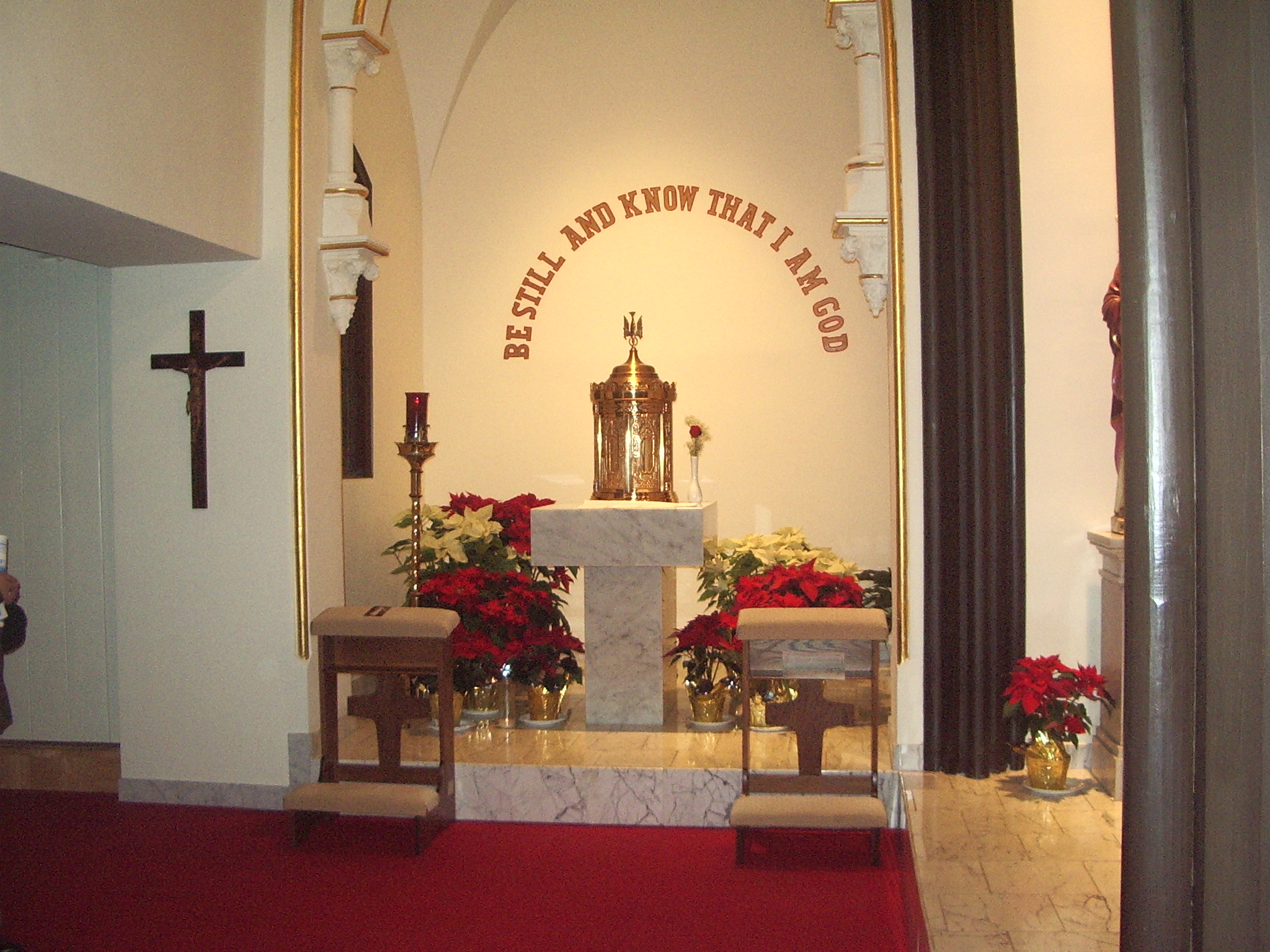 Tabernacle in the Most Holy Trinity Church, Mamaroneck, New York.